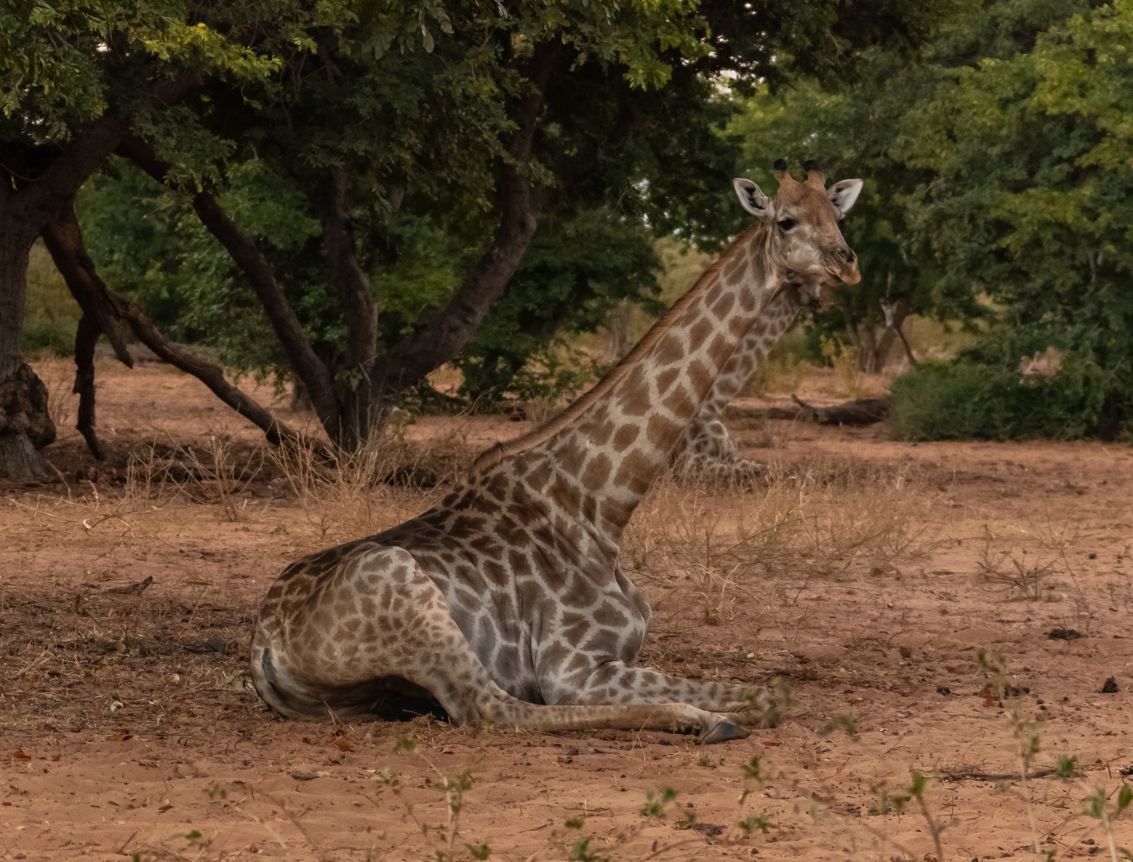 Northern giraffe (Giraffa camelopardalis), Chobe National Park, Botswana